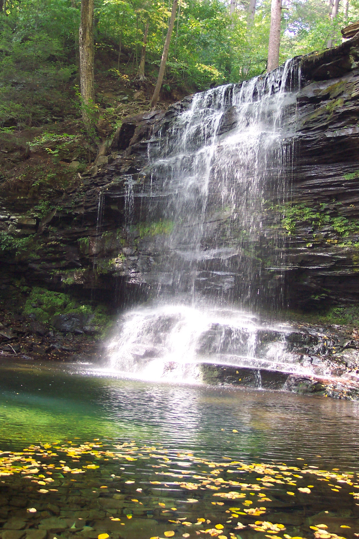 Harrison Wright Falls (27 feet (8.2 m) tall) on Kitchen Creek in Ricketts Glen State Park, Fairmount Township, Luzerne County, Pennsylvania, USA. Going north from Pennsylvania Route 118, it is the third of three named waterfalls on Kitchen Creek, south and downstream of Waters Meet. It is one of twenty two named waterfalls in the park, according to the Pennsylvania Department of Conservation and Natural Resources.